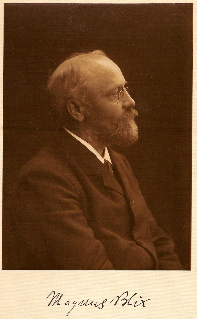 Magnus Blix with signature, (1849-1904), Swedish physiologist, professor and rector magnificus at Lund University, Sweden. Blix is best known for his work in the 1880s concerning somatic sensation.